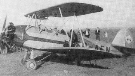 Heinkel He 72 Kadett SP-AFN in Bydgoszcz airfield